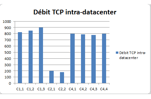 Test Réseau1. débit TCP intra-datacenter